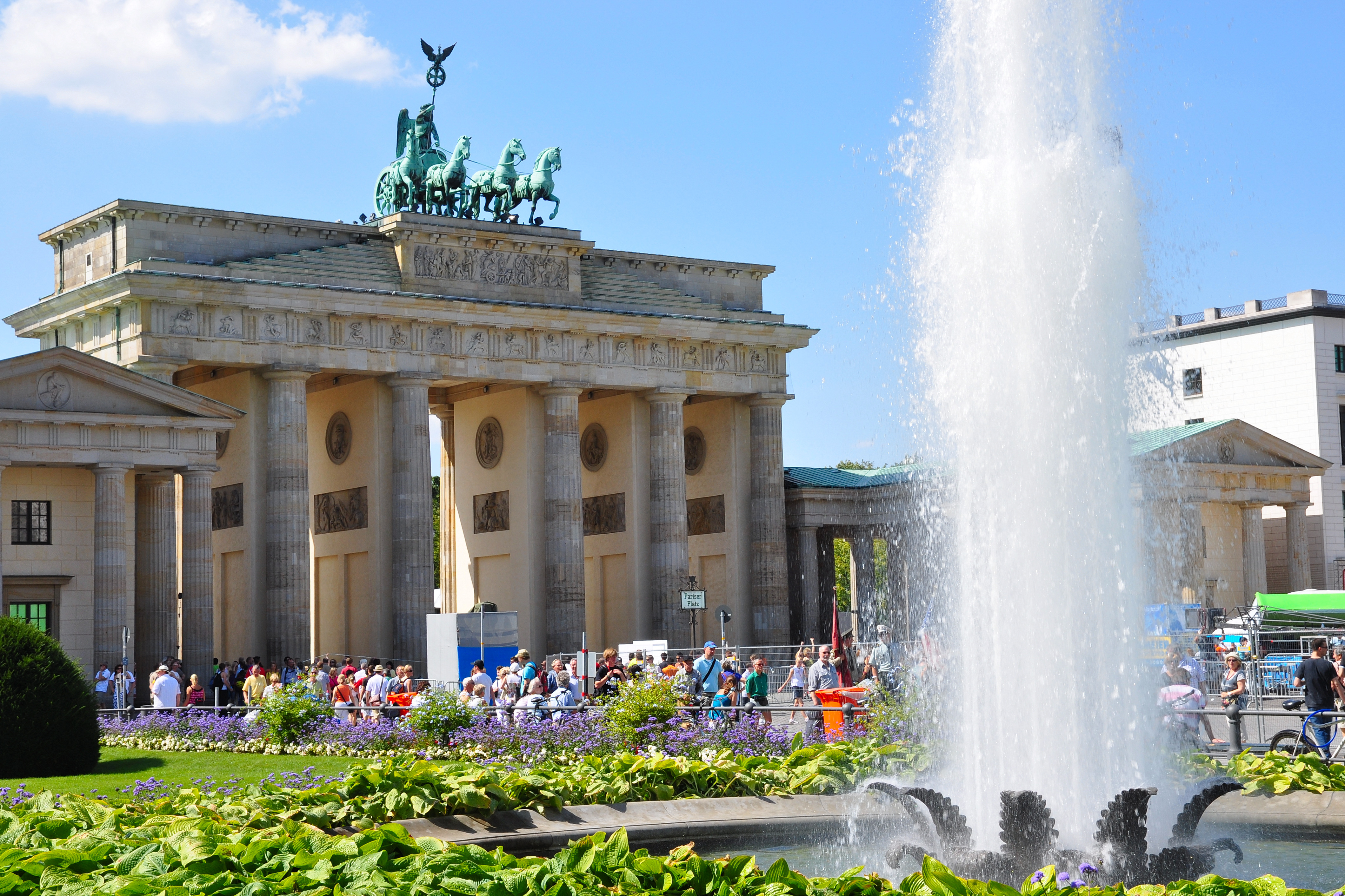 Brandenburg Gate, Berlin